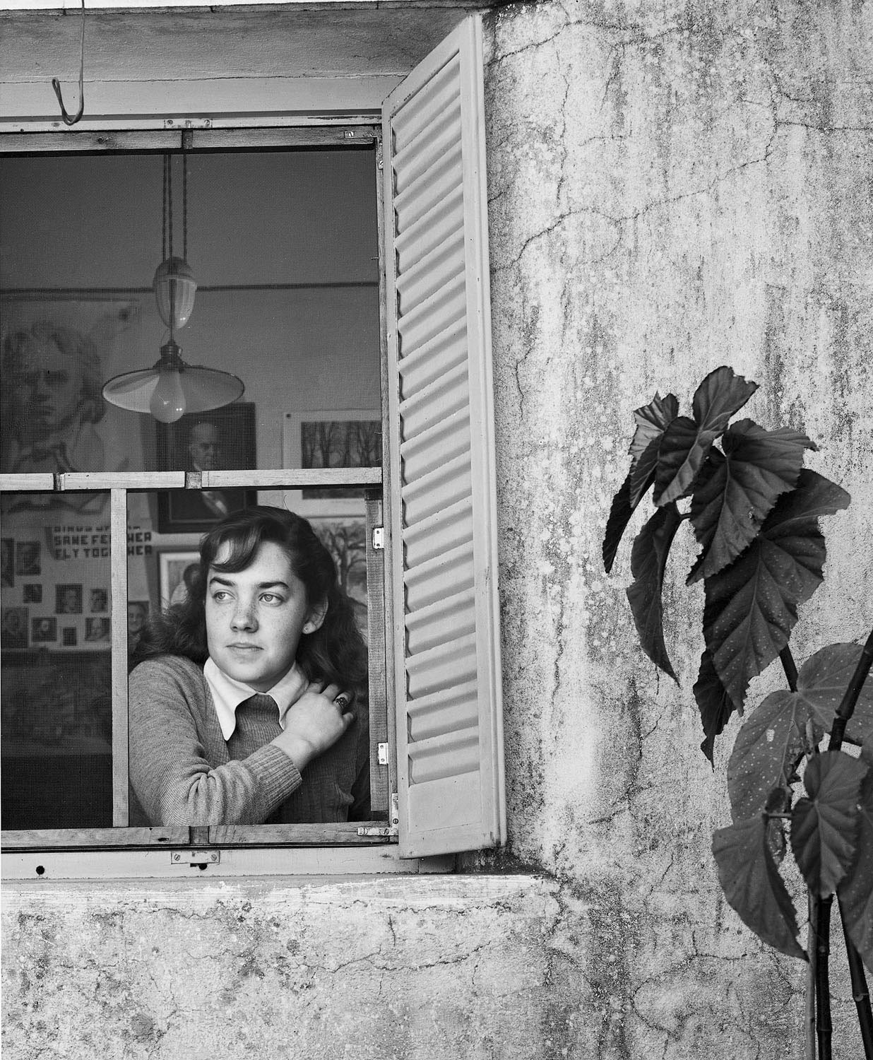 Photography